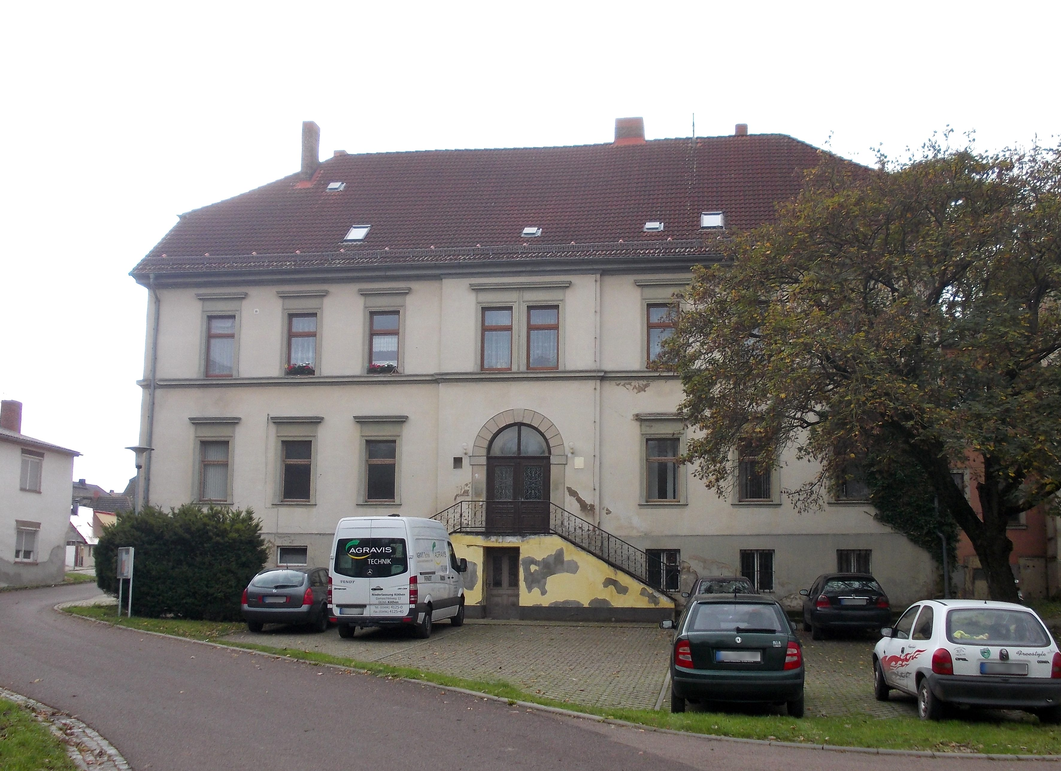 Trinum manor house (Osternienburger Land, Anhalt-Bitterfeld district, Saxony-Anhalt)